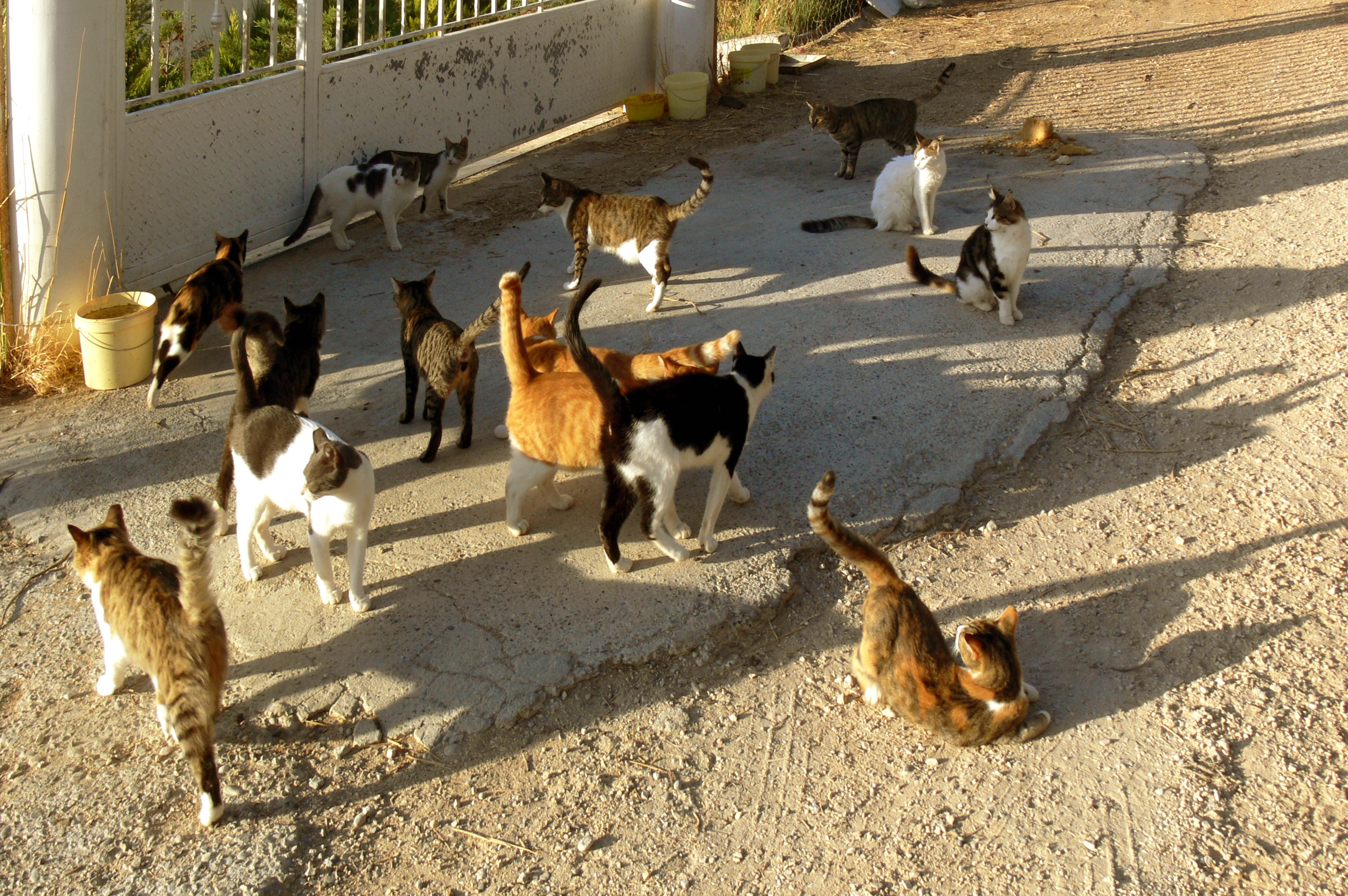 Cats on the Rodos Island